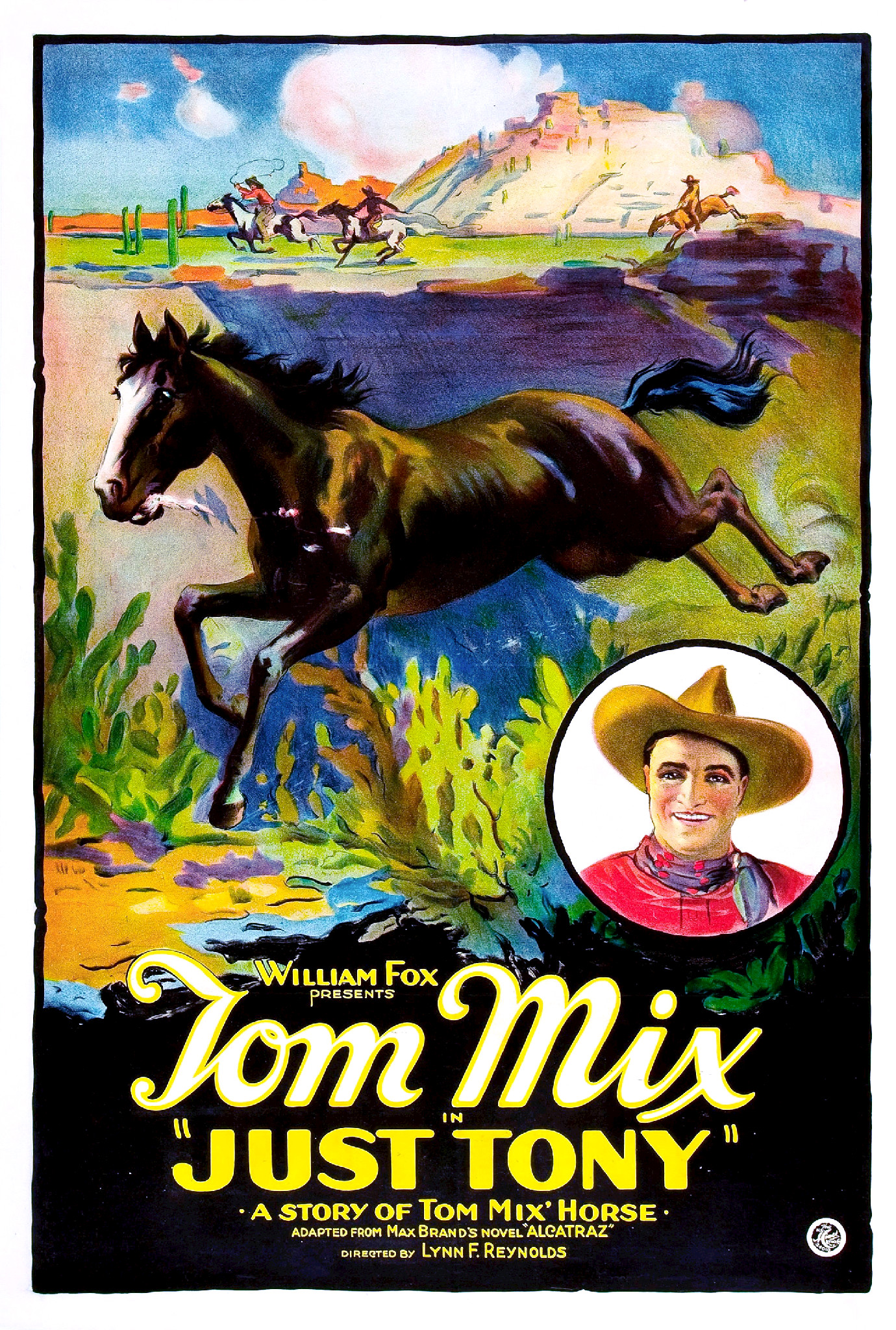 Poster for the American western film Just Tony (1922).